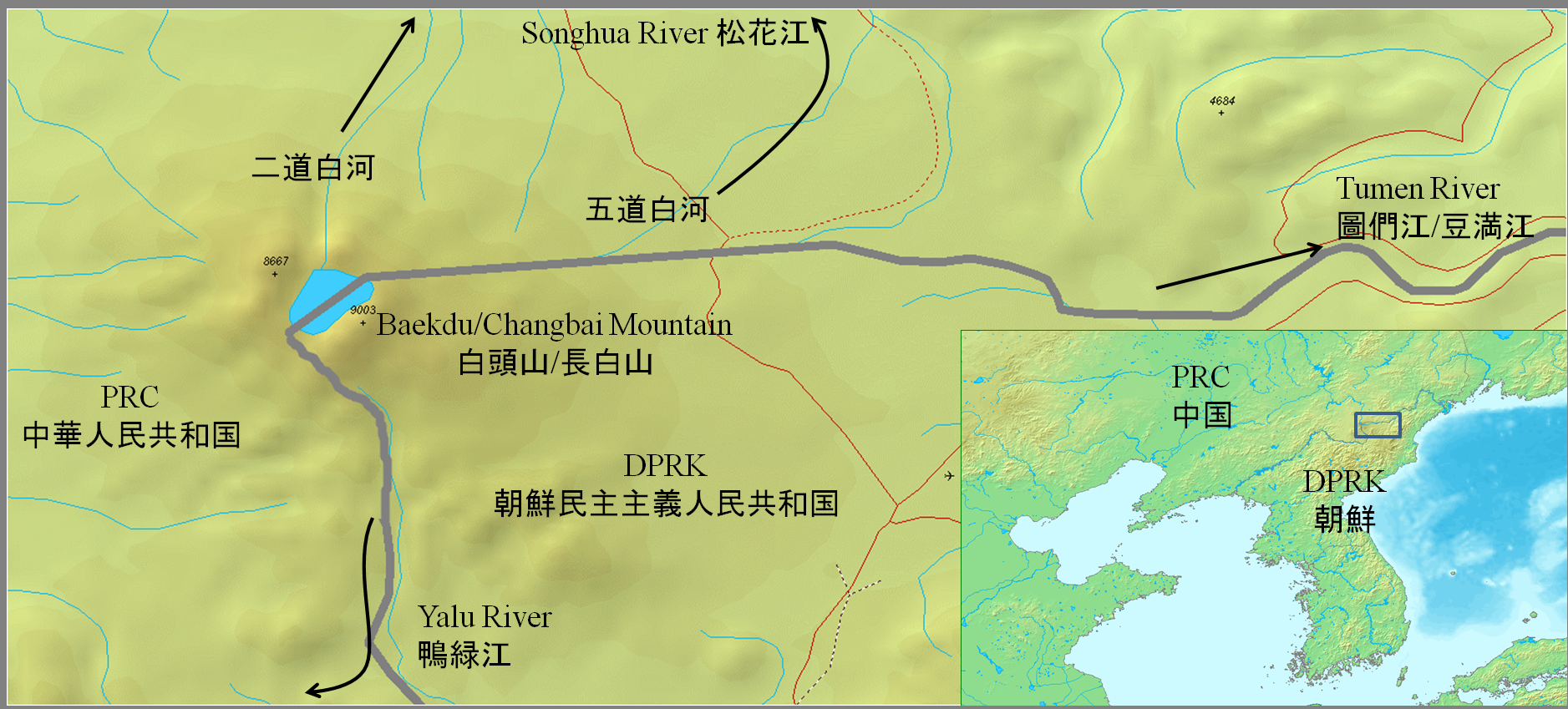 Approximate PRC-DPRK border around Baekdu-Changbai Mountain